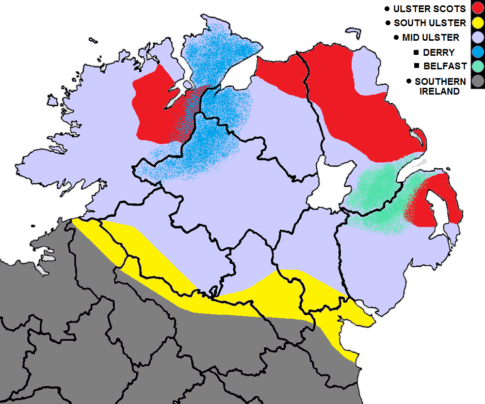 A map showing the English dialects spoken in Ulster. Adapted from the original by User:Responsible?.